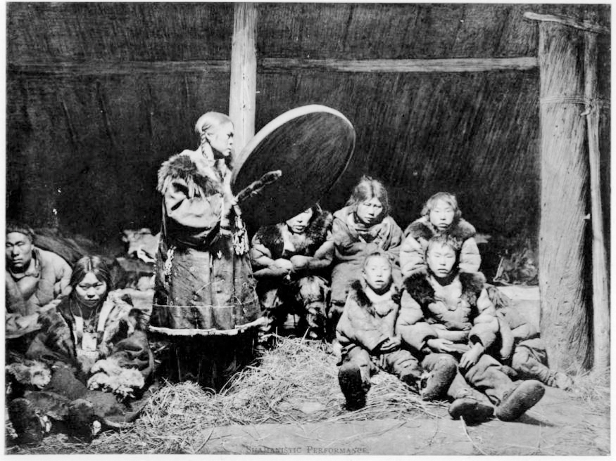 Koryak shaman woman, photo from Jesup North Pacific Expedition